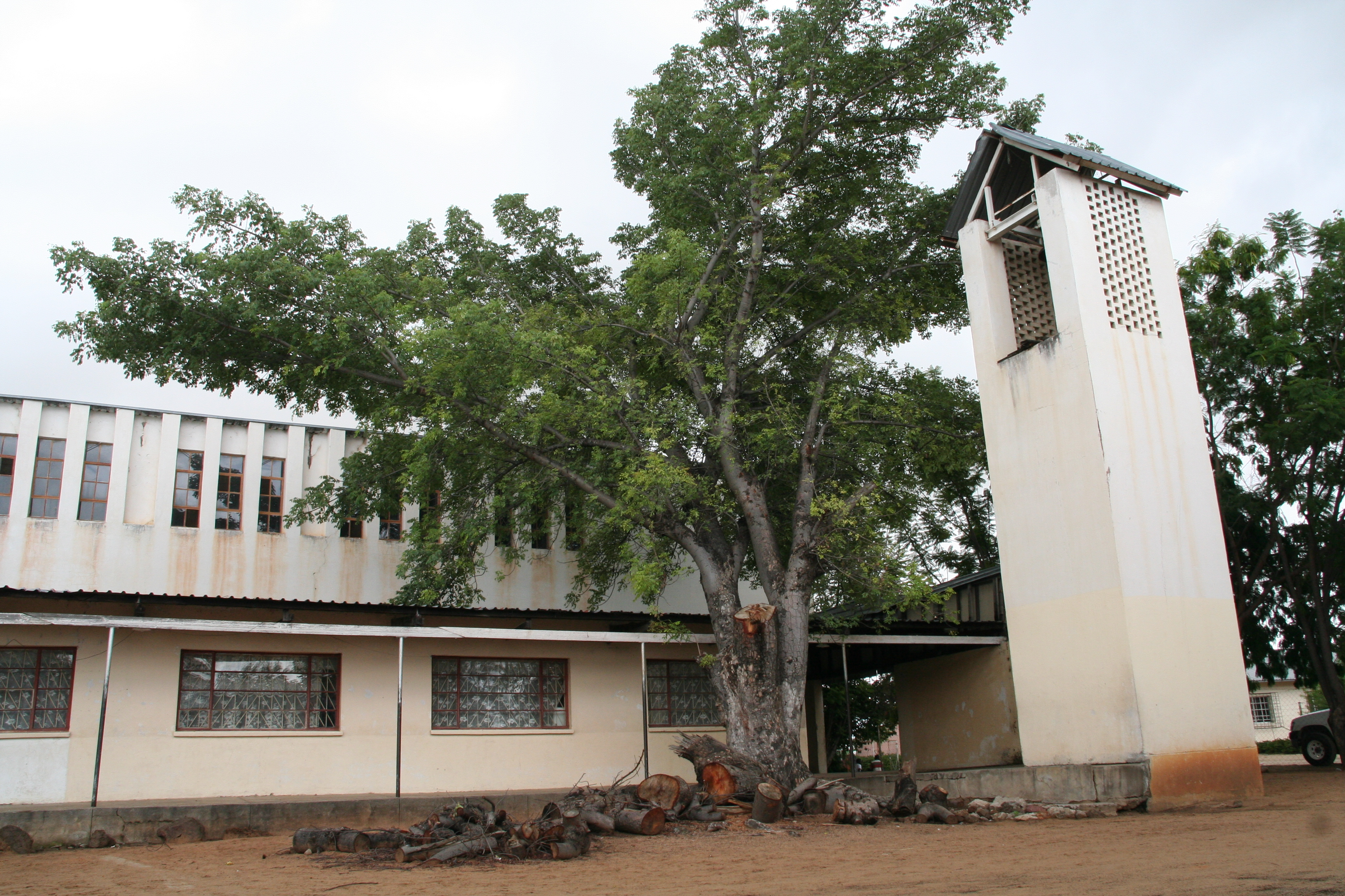 Church of the Evangelical Lutheran Church in Namibia (ELCIN) in Nkarapamwe Services: Sundays 7:30 English, 9:00 RuKwangali -17.914578,19.772348